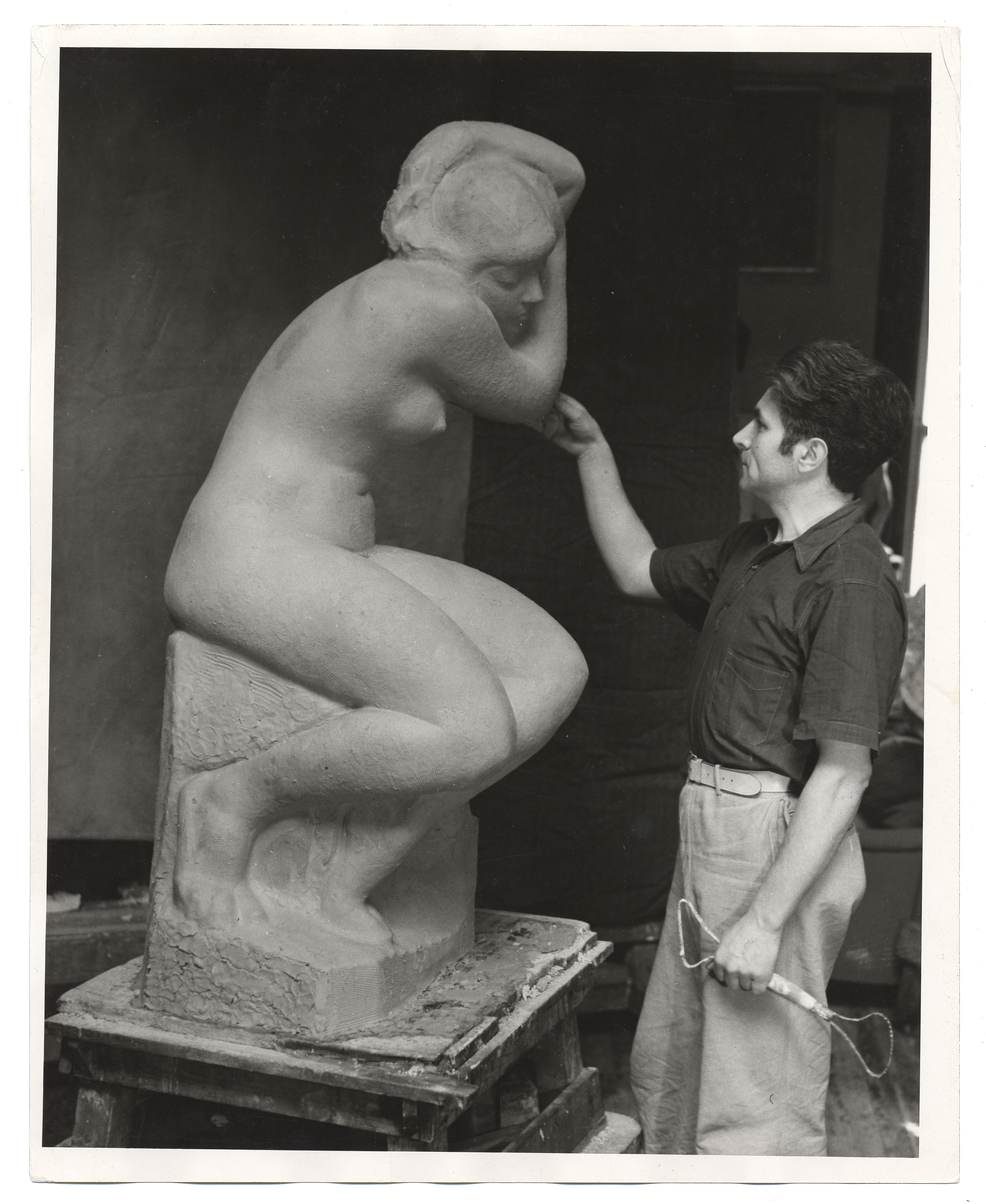 Glinsky with a sculpture for the Works Progress Administration.Identification on verso (handwritten and stamped): Federal Art Project W.P.A.; Photographic Division; 110 King Street; New York City Negative No.: 3743-1; Date: 3/8/39; Photographer: Herman; Artist: Vincent Glinsky; Medium: Sculpture; Location: 9 E. 17 St., N.Y.